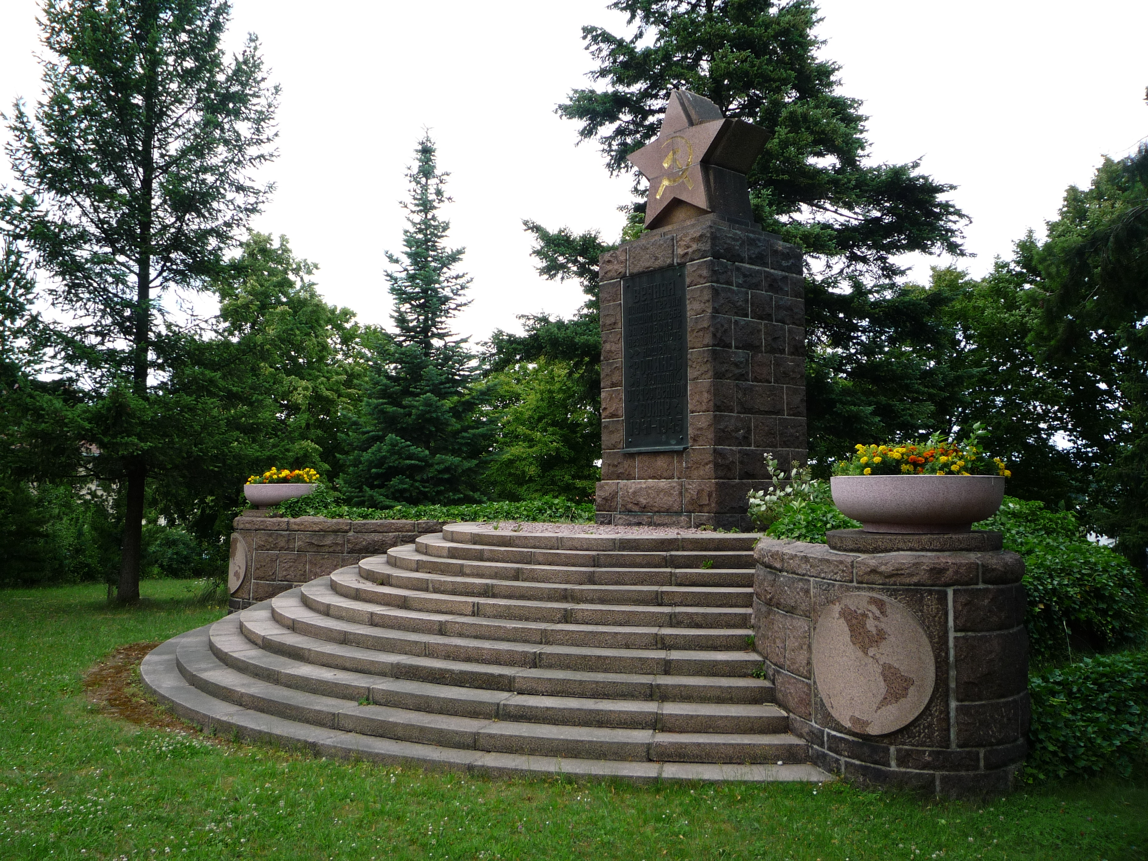 Cenotaph on the soviet soldier´s graveyard in Meißen-Bohnitzsch